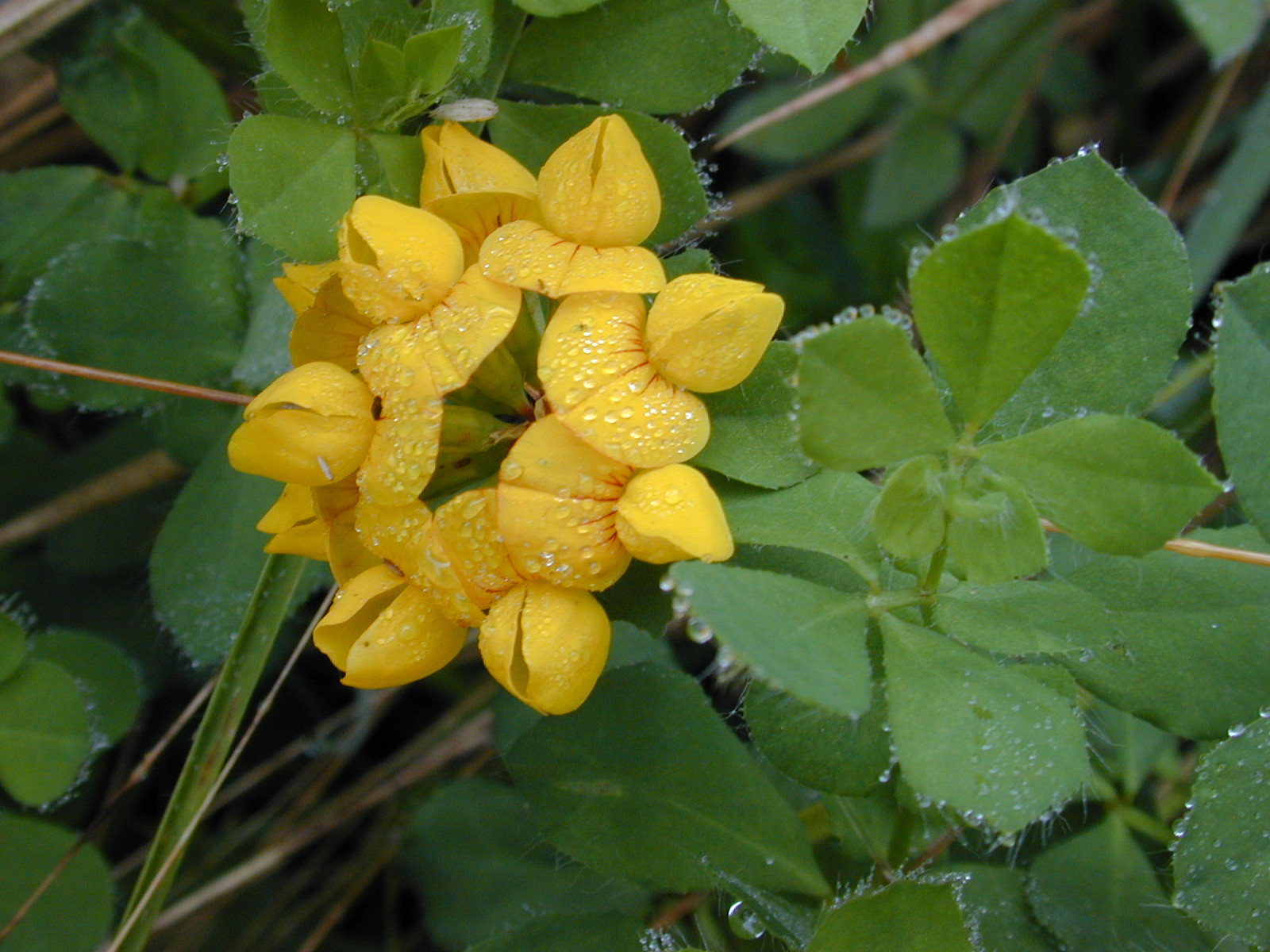 Lotus uliginosus (flowers). Location: Maui, Polipoli